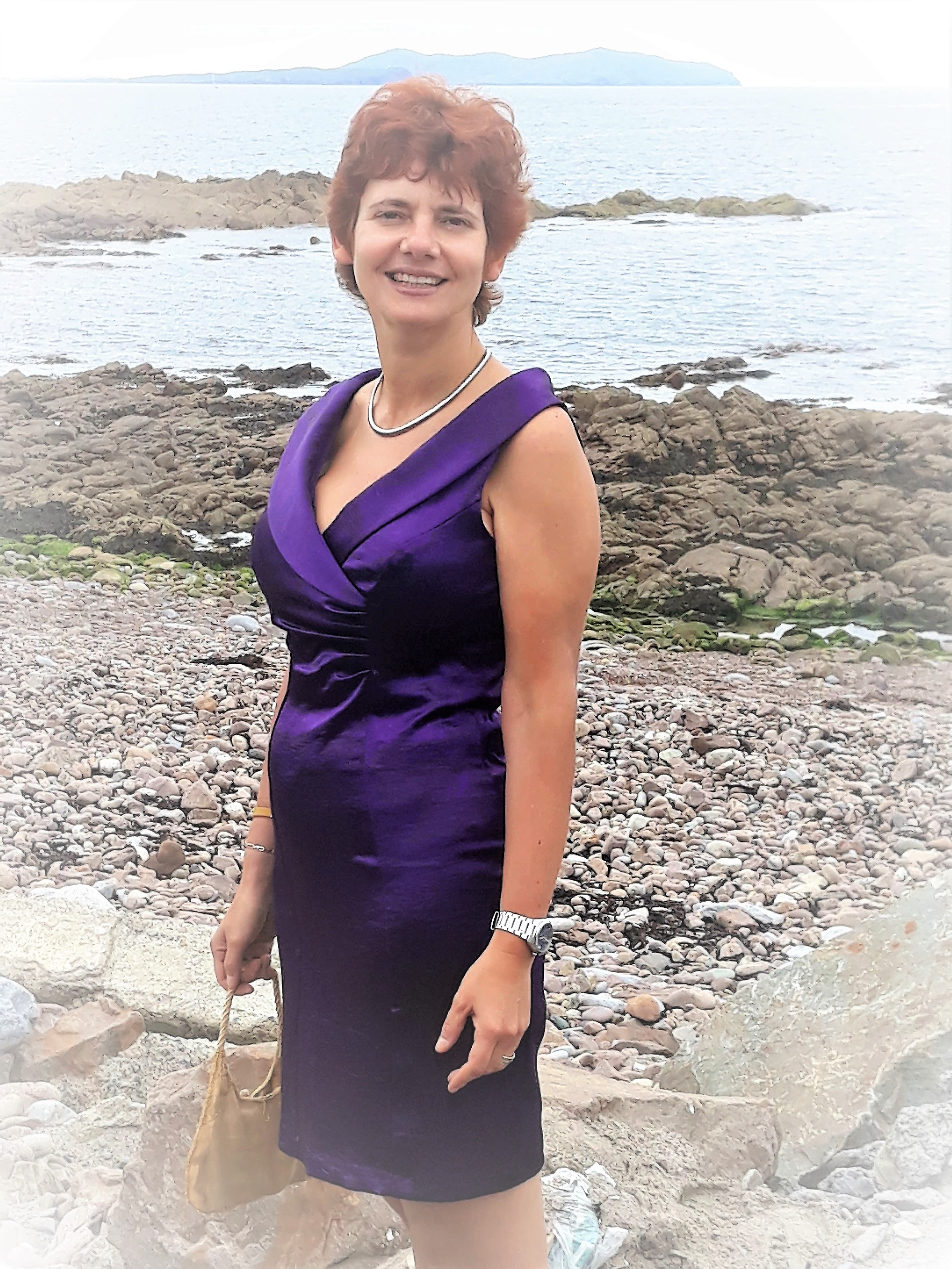 Writer Margarita Meklina stands at Roonagh Pier preparing to embark on a ferry to go to Inishturk, Ireland